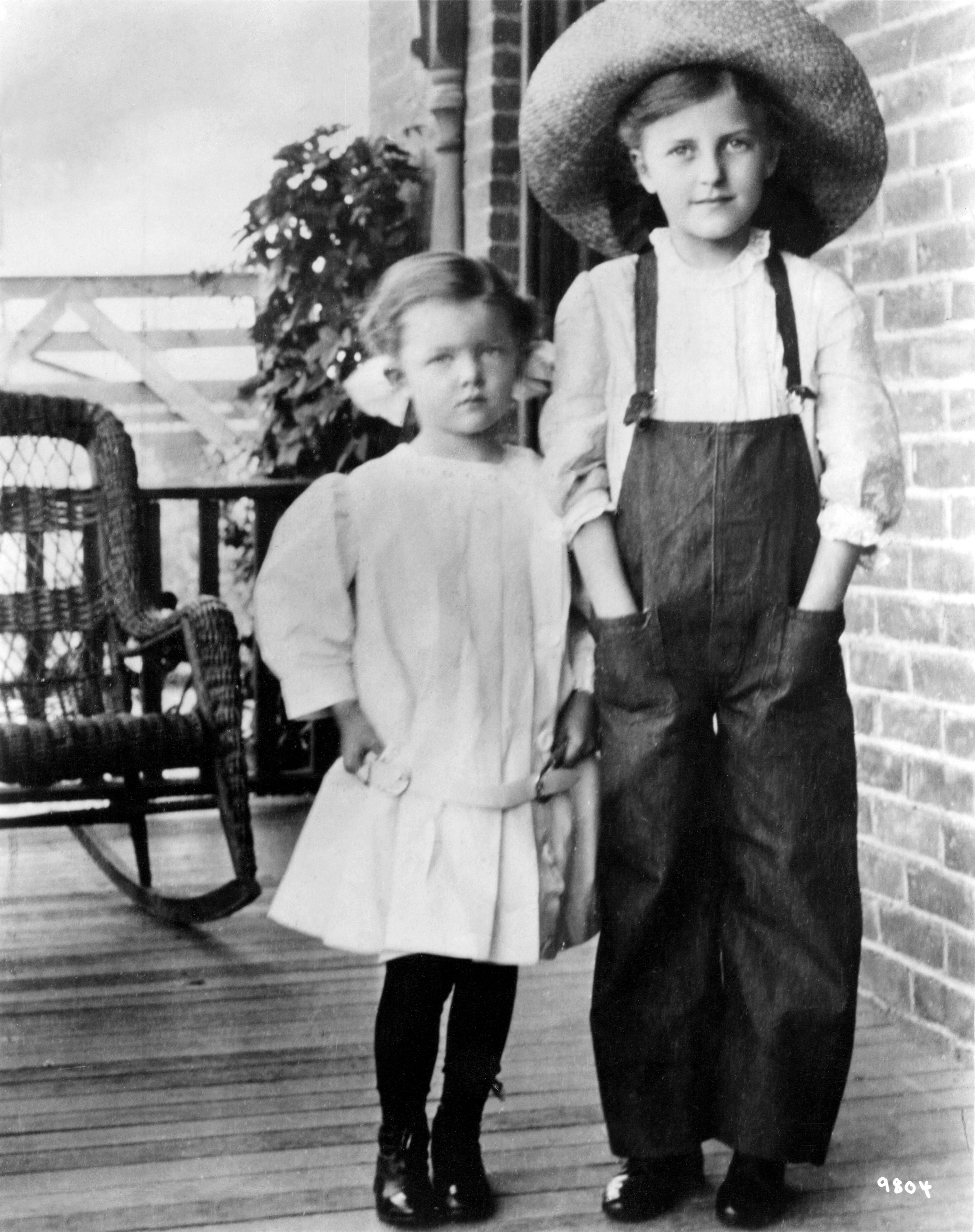 Photograph of Myrna Loy (left) at age 6, with her cousin Laura Belle Wilder, on Loy's grandmother's porch in Helena, Montana MGM snipe on reverse side of photograph reads as follows: MYRNA LOY AT THE AGE OF SIX with her cousin, Laura Belle Wilder, who has since passed away. This photograph was taken on the porch of her grandmother's home. Miss Loy is now being co-starred with Clark Gable in Metro-Goldwyn-Mayer's production of "Parnell", which John M. Stahl directs.